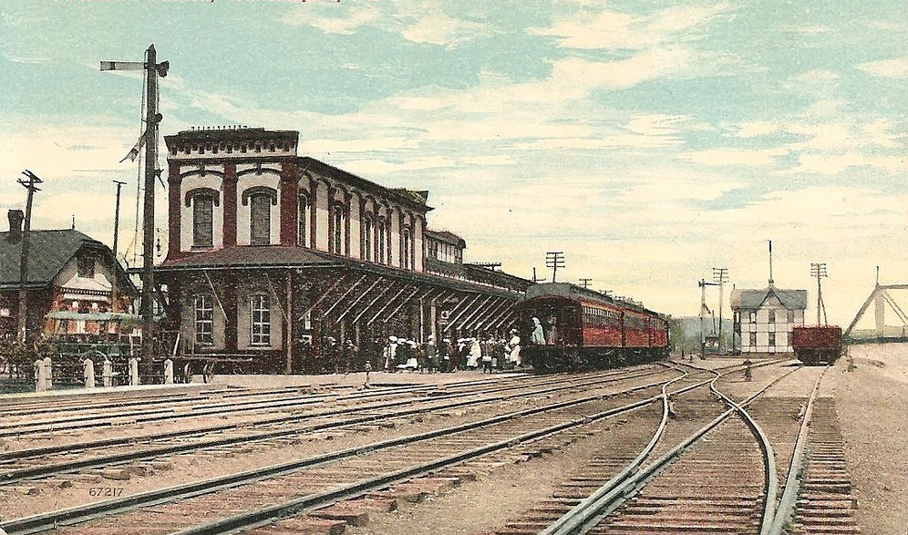 Williamsport postcard